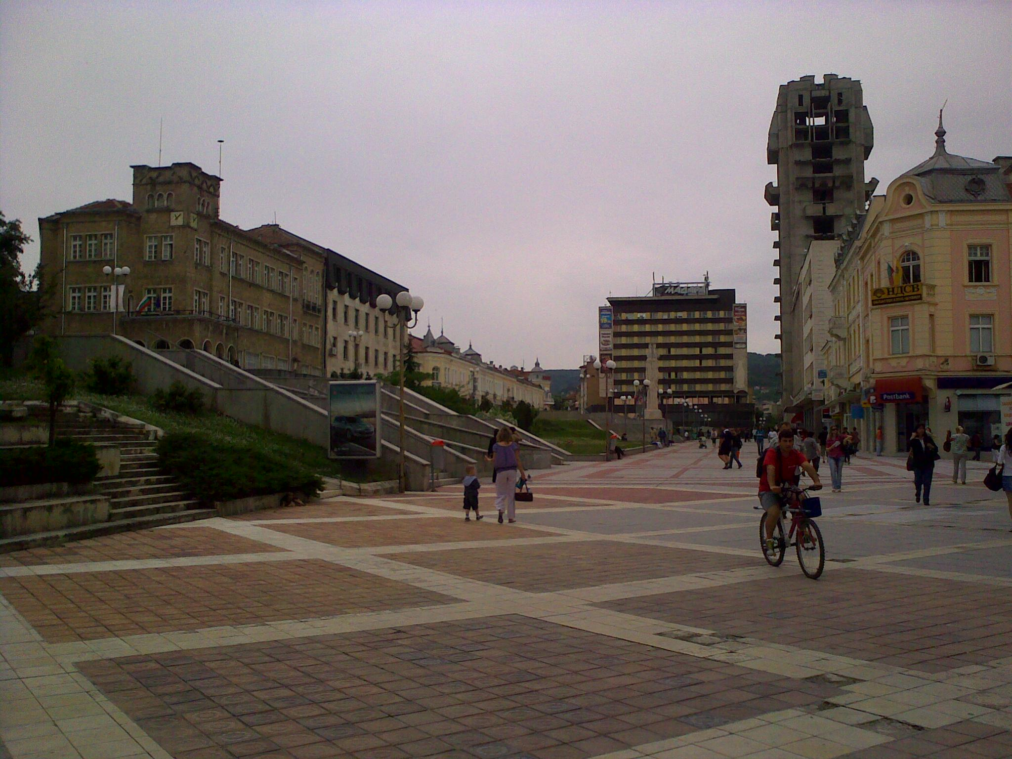 Centre, Shumen